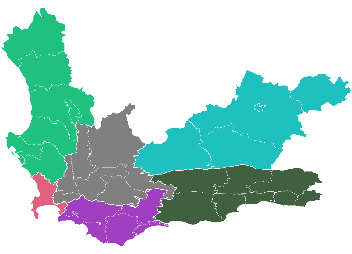 Map showing districts (different colours) and local municipalities in the Western Cape.